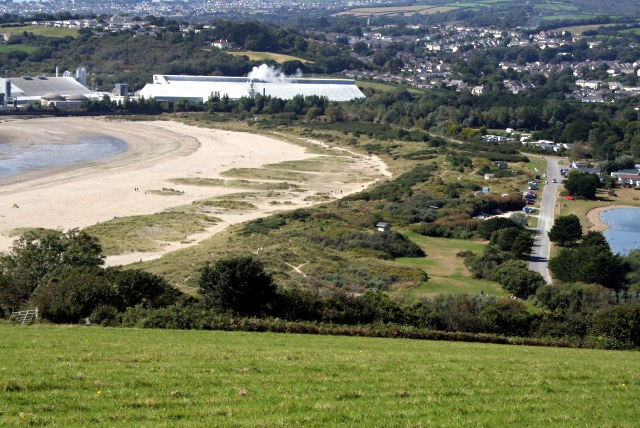 Par Sands Dune Succession So how does this compare with what you learned in class about dune succession?